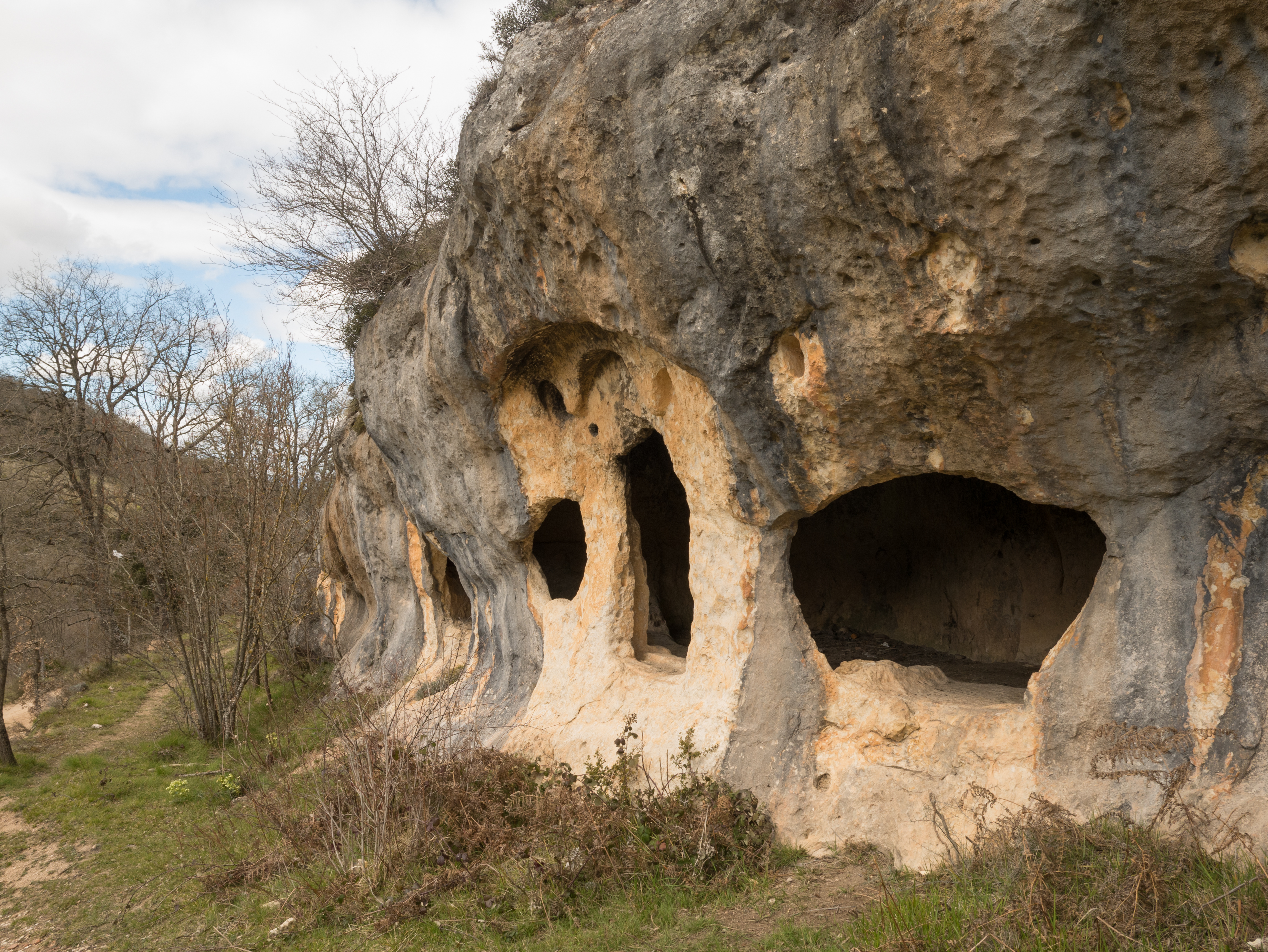 Eremitic caves in the Guztarriarana valley. Marquínez, Álava, Basque Country, Spain